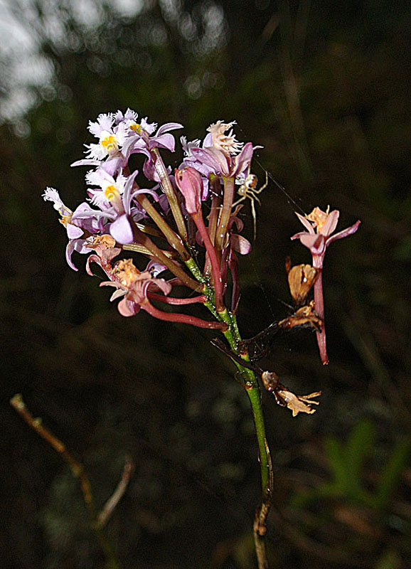 A terrestrial orchid found in the highlands from Colombia to Bolivia. Photo from above the town of Ulba, Ecuador. In context at